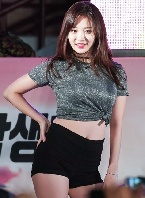 Yura at Andong National University Festival on September 24, 2016.